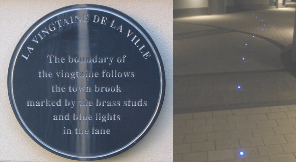 Collage of plaque and light installation marking boundary of La Vingtaine de la Ville in St. Helier, Jersey Vingtaine de la Ville